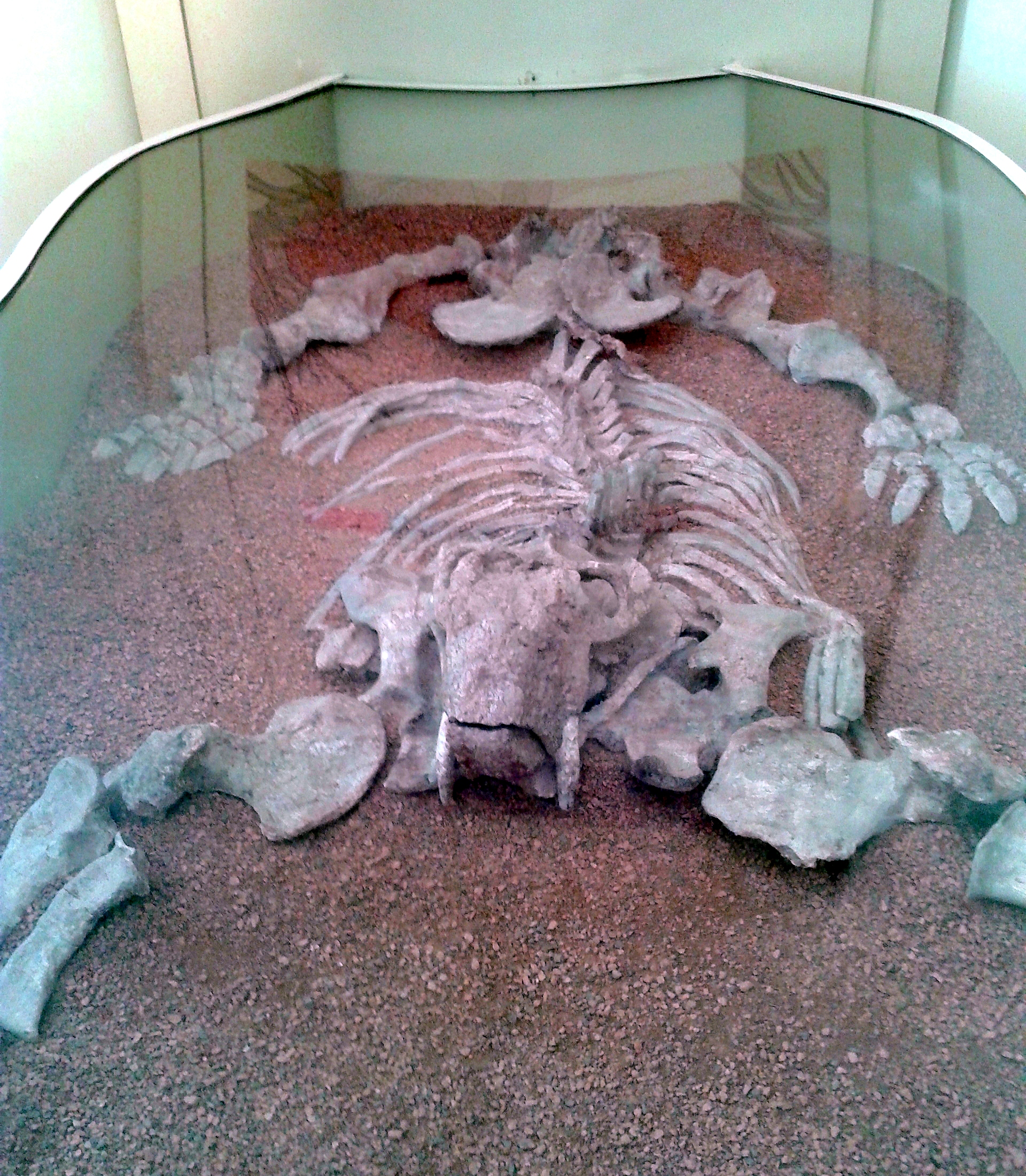 Classification: Therapsida, Kannemeyeriidae Size: 3.5 meters (length); 1.80 meter (height) Feeding: herbivore